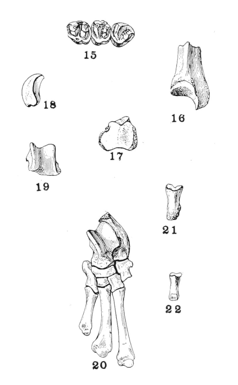 Title: Annals of the Carnegie Museum Year: 1919 (1910s) Authors: Carnegie Museum; Carnegie Museum of Natural History Subjects: Carnegie Museum; Carnegie Museum of Natural History; Natural history Publisher: [Pittsburgh : Published by authority of the Board of Trustees of the Carnegie Institute] Text Appearing Before Image: ANNALS CARNEGIE MUSEUM, Vol, XII. Plate XXXIV. Text Appearing After Image: Canids from the Uinta. (For explanation see opposite page.)